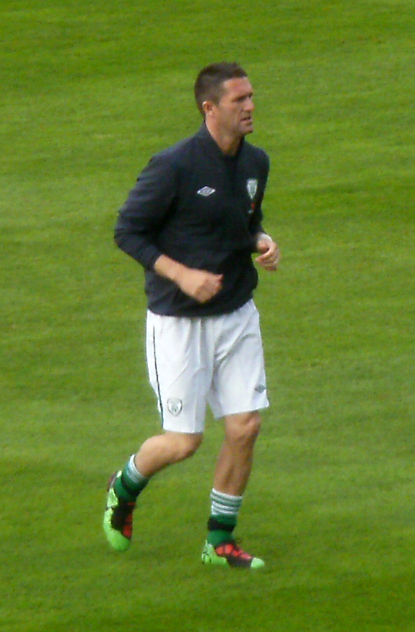 This is a derivative work of File:Keanoireland.JPG uploaded by User:Jackpollock as PD-self